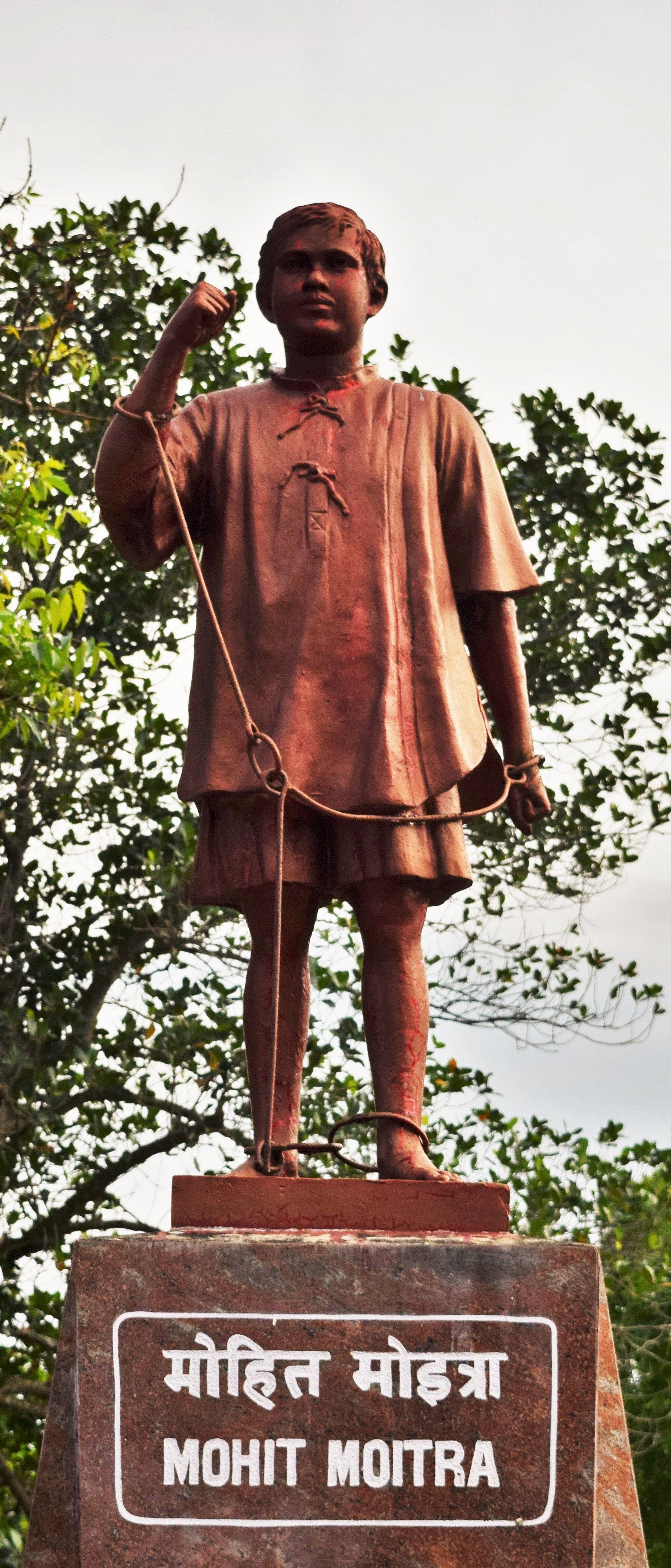 Statue of Indian freedom fighter Mohan Moitra at Veer Savarkar Park, Port Blair, Andaman and Nicobar Islands